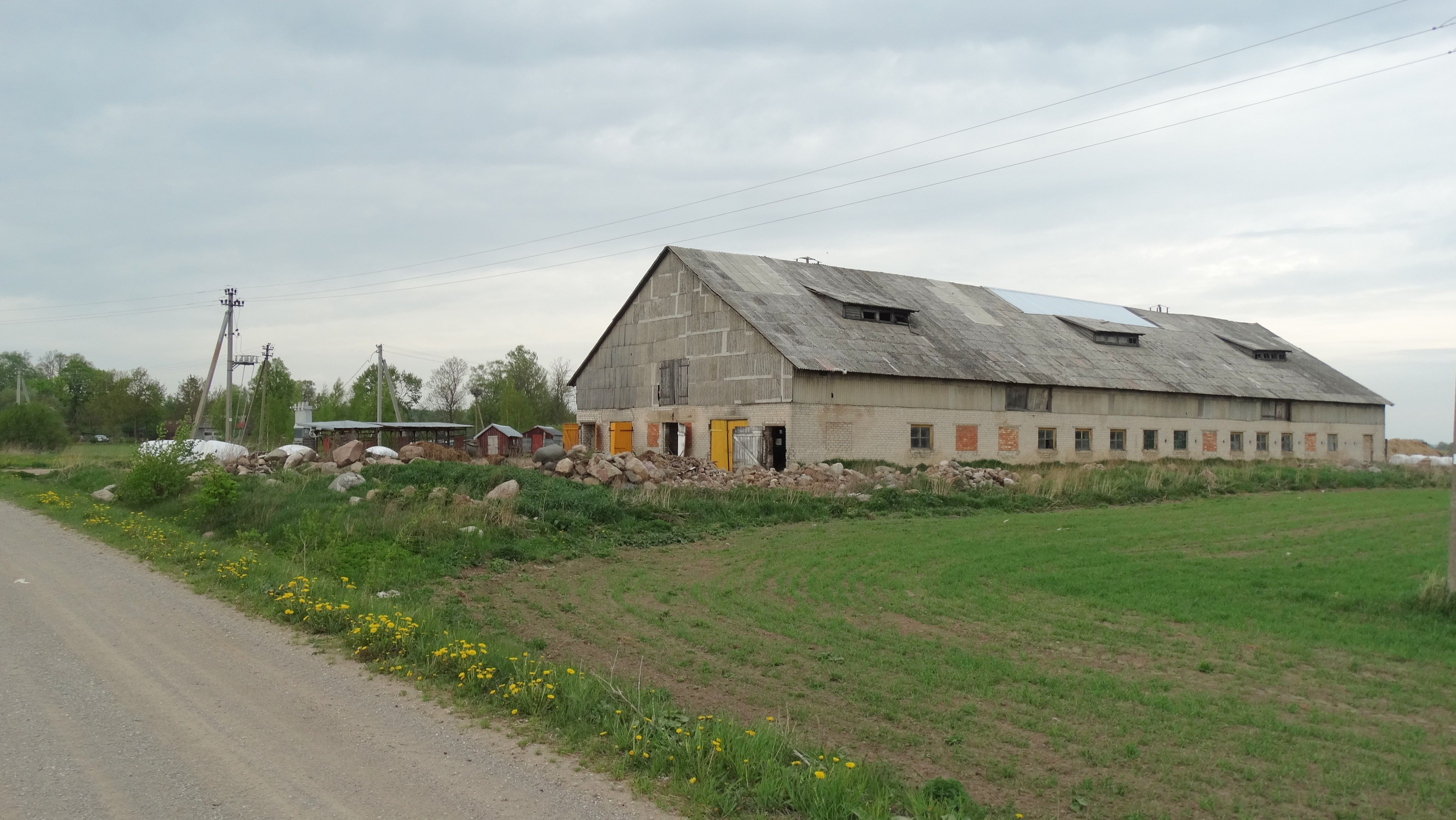 Voronėliai, Pakruojis district, Lithuania